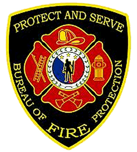 Unit Seal of the Bureau of Fire Protection.